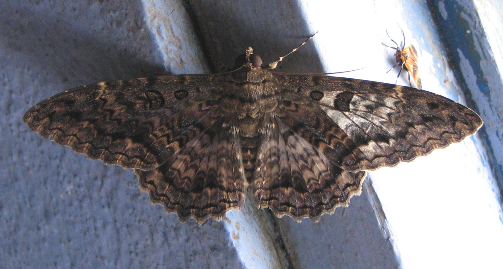 Latebraria amphipyroides, moth, Monteverde, Costa Rica